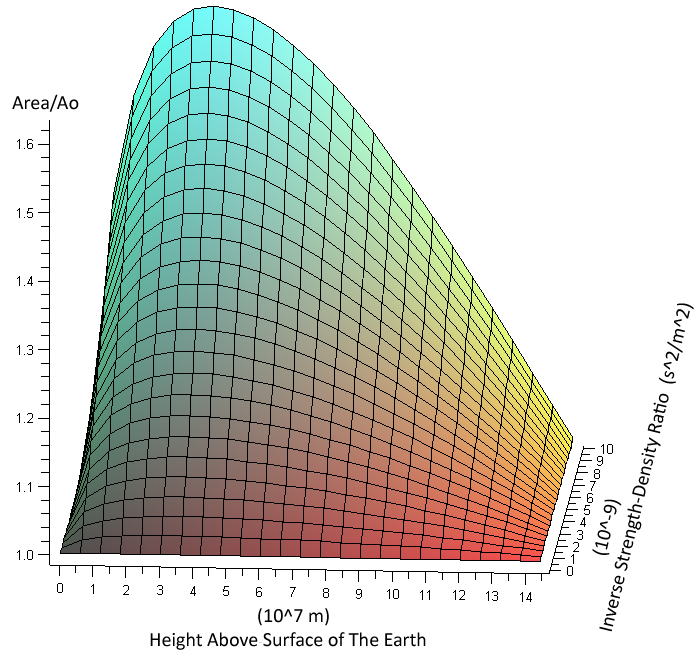 I made this for a project for university. It was made with Maple 10, titles added with Photoshop. This version is a better angle and has the axis units which I forgot in the previous version. Just a note, it should be kg/m³/Pa instead of kg/Pa